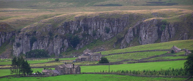 Holwick Scars. Part of the 'Whin Sill' geological feature (refer Whin_Sill ). Taken from north of the River Tees above Bowlees.